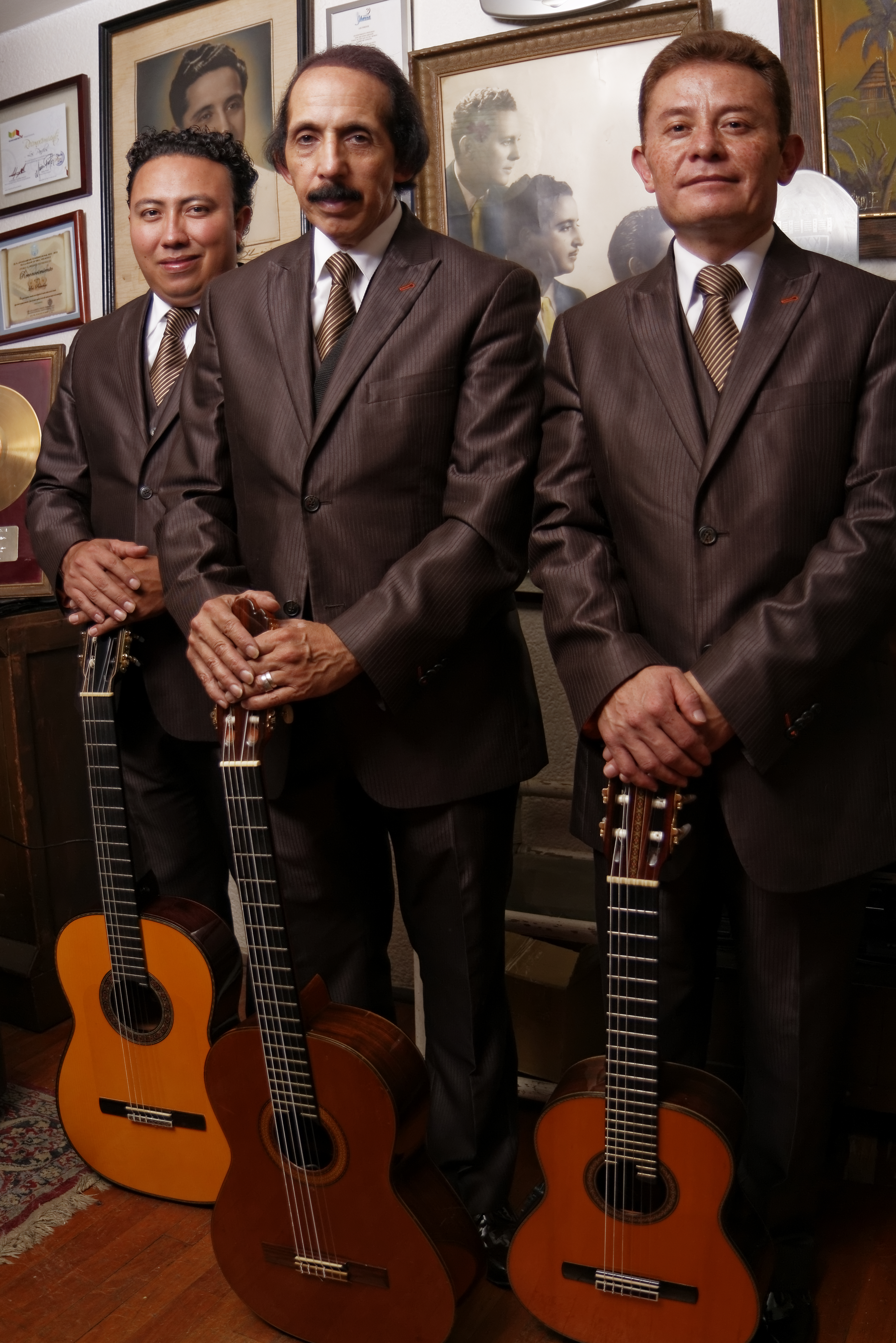 Director Chucho Navarro Jr. the legitimate heir